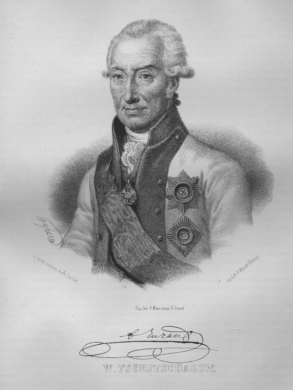 Vasily Chichagov